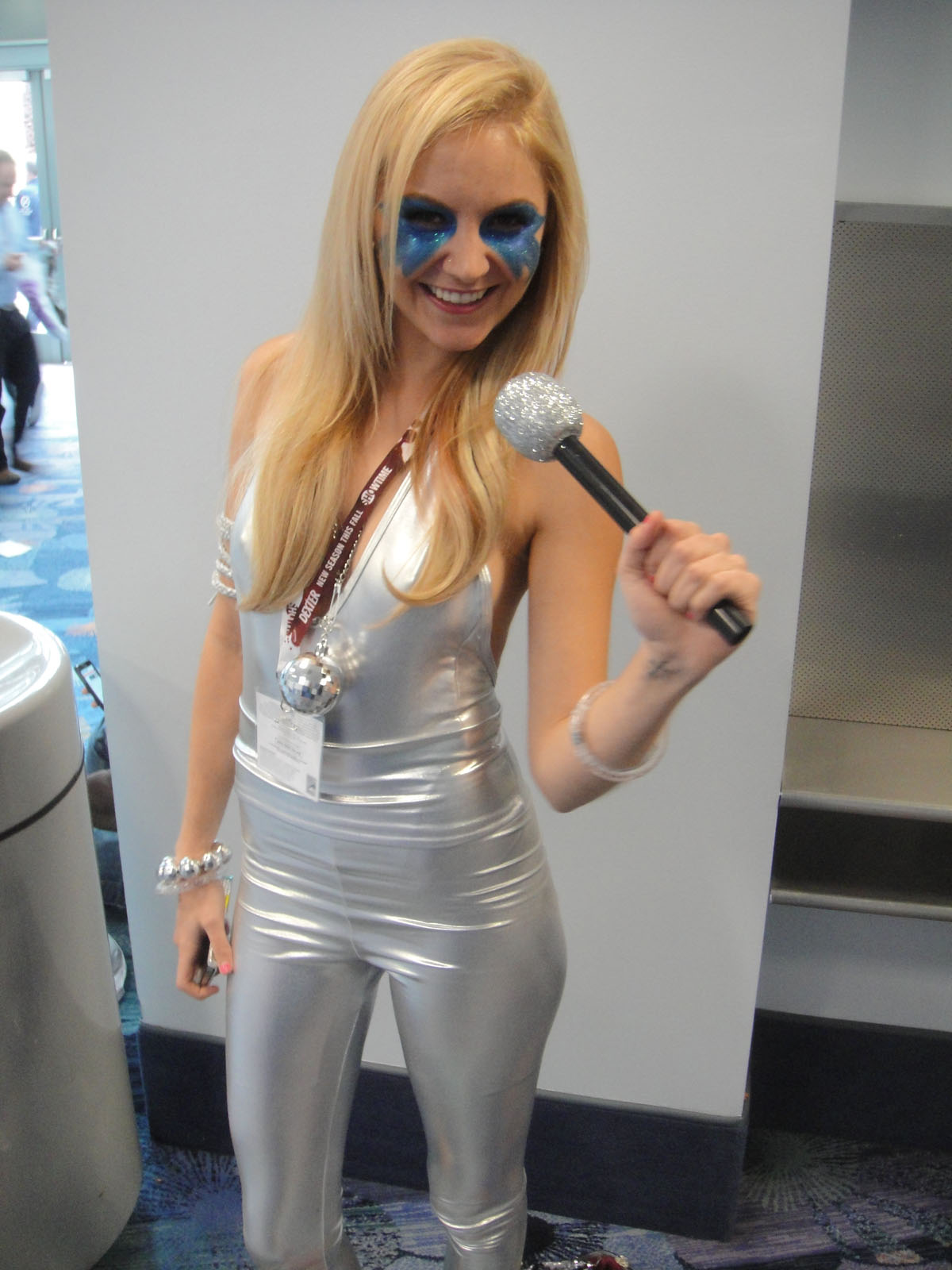 photo 2012 Pop Culture Geek taken by Doug Kline If you're interested in higher resolution versions of my images, contact me via my profile page.